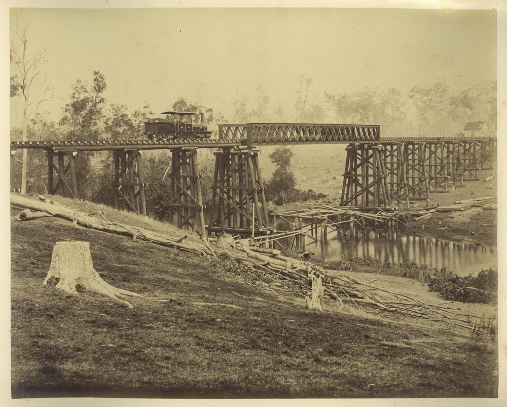 High trestle railway bridge at Graham Creek west of Maryborough, 1882 Locomotive on a recently constructed railway bridge over Graham Creek, on the Maryborough railway line.